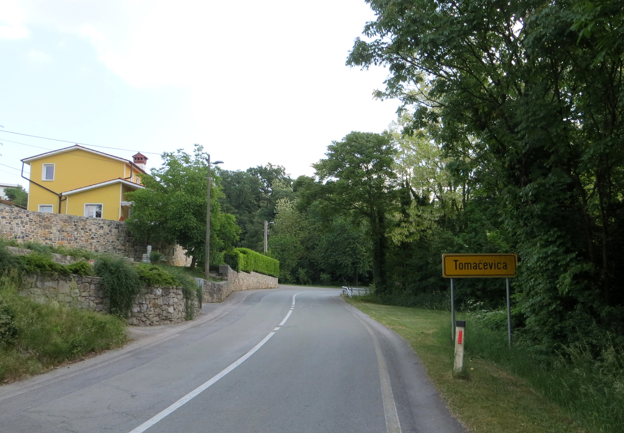 Tomačevica, Municipality of Komen, Slovenia